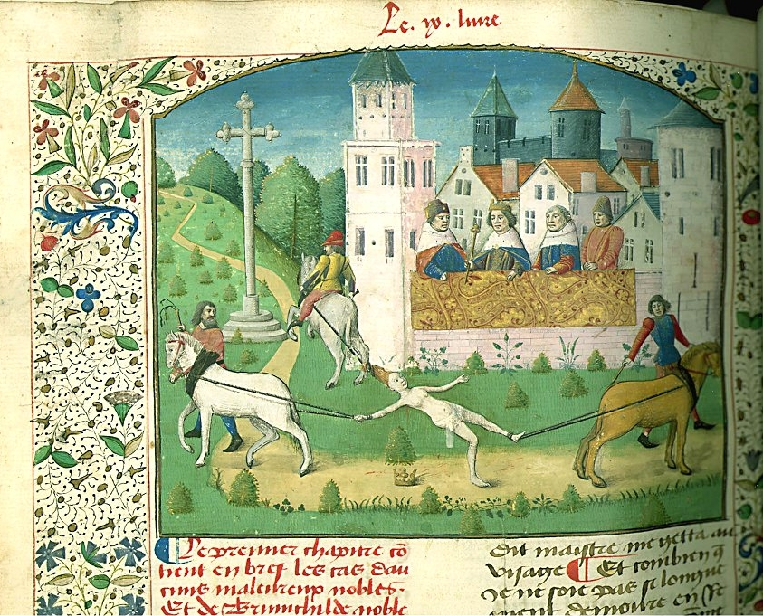 Execution of Brunehilde. De casibus